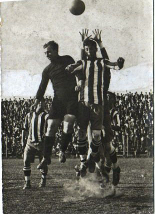 Photograph of footballer Jose Piendibene